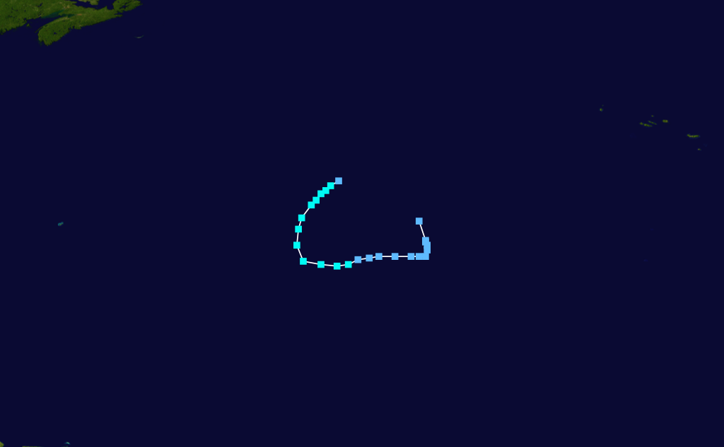 Subtropical Storm Delta (1972) track. Uses the color scheme from the Saffir-Simpson Hurricane Scale.